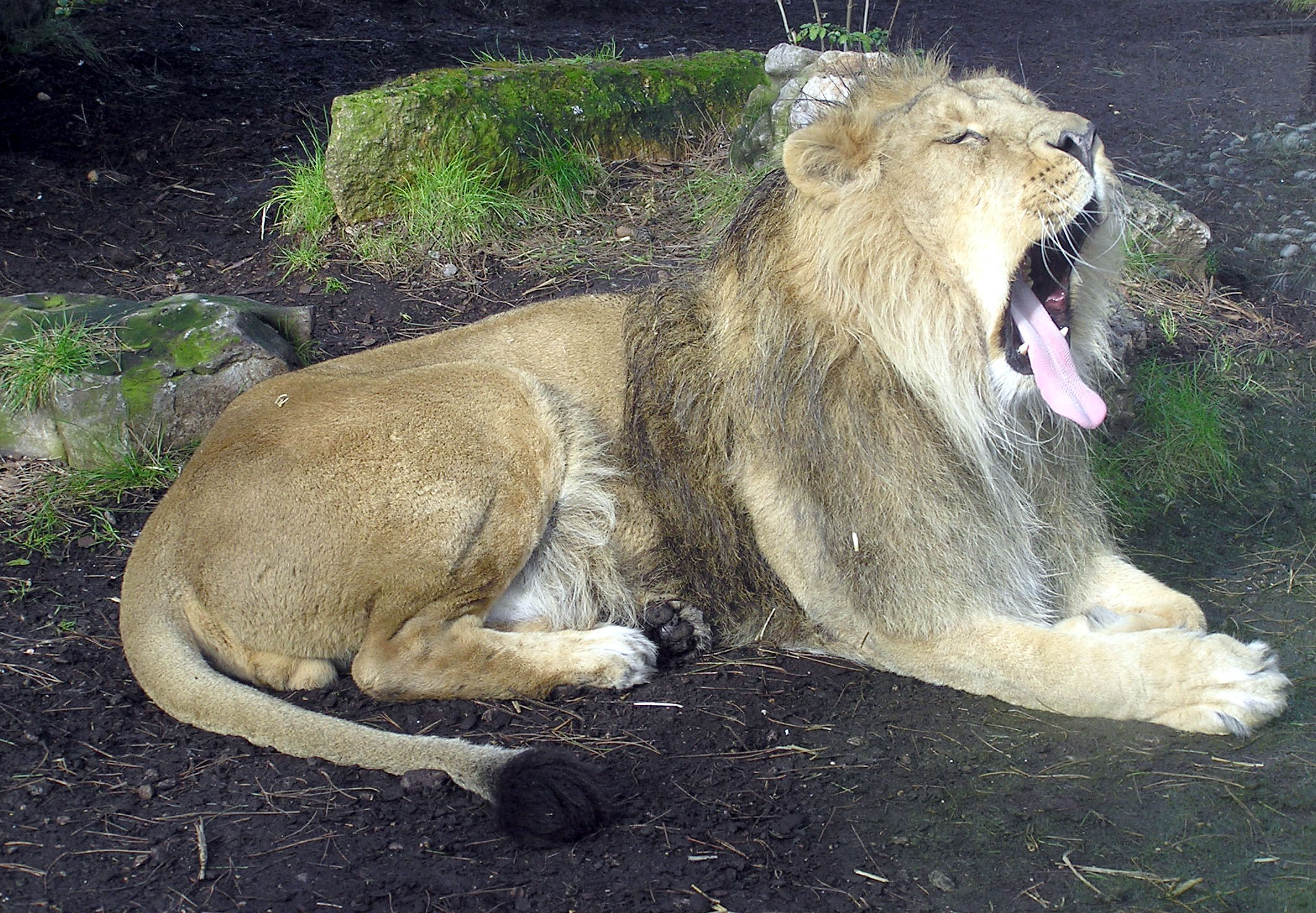 Asiatic Lion “Chandra” Panthera leo persica, born July 1994 at Chester Zoo (England), arrived Bristol Zoo August 1996. Habitat: the Gir Forest of north west India (but this lion was born in captivity).